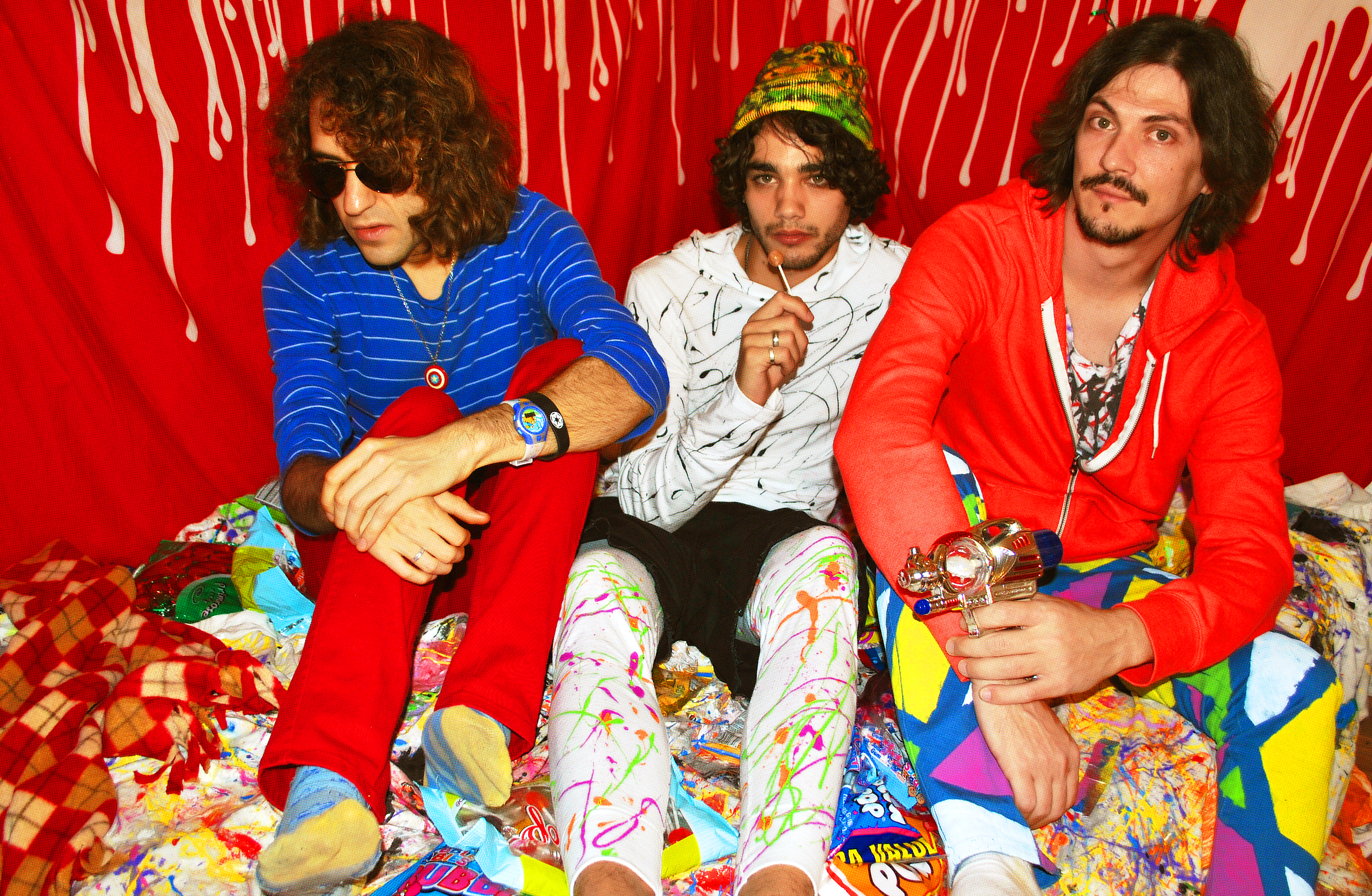 Press photo of the band 'shotty' posing on a bed at their house in Los Angeles, CA.